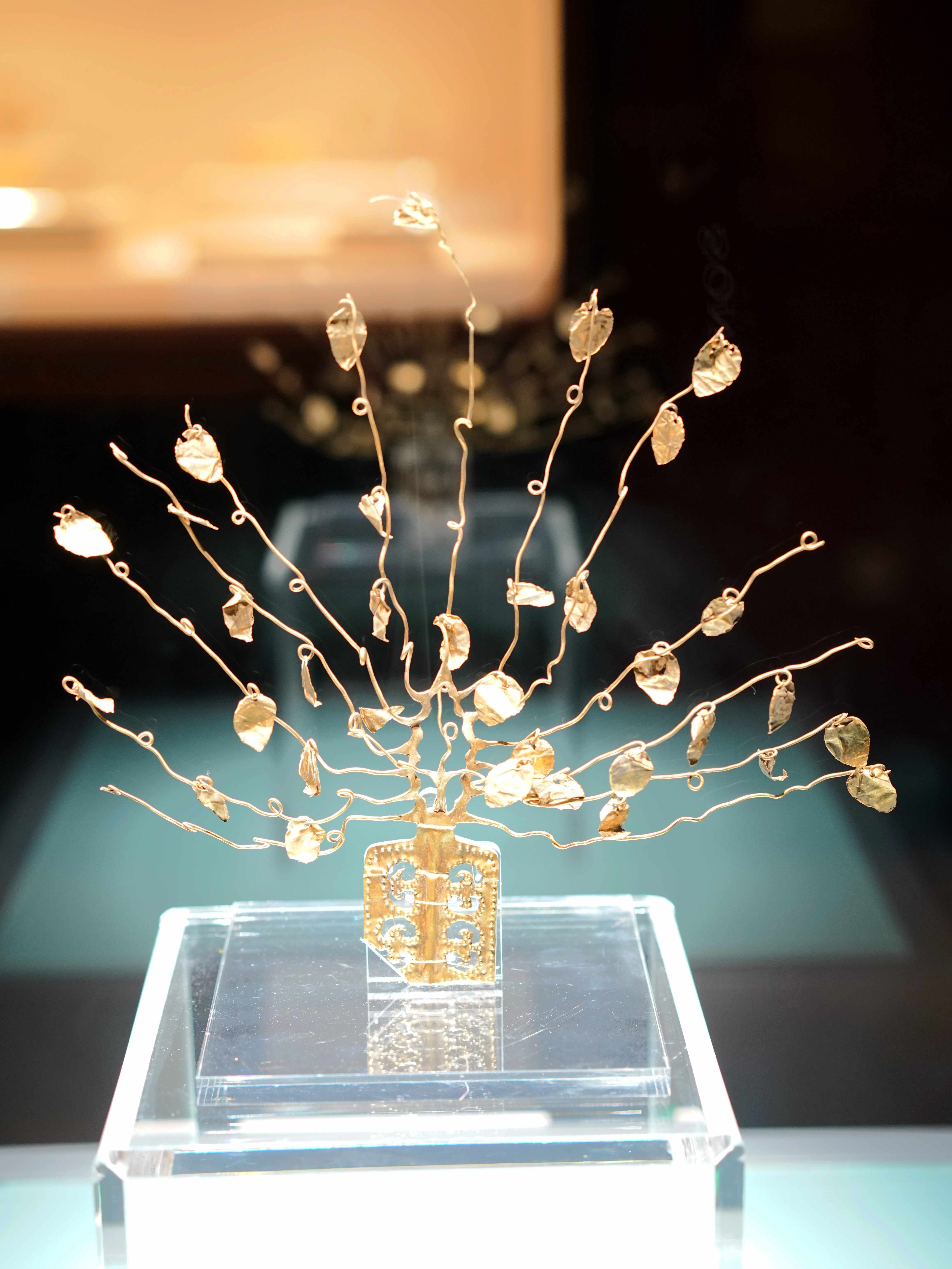 Tree-shaped gold shimmering deahdress.